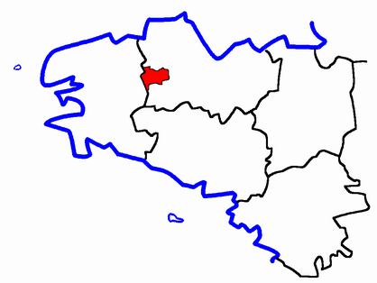 Description: Map for localisazion of cantons of Bretagne region in France Source: made by Hervé Tigier in april 2005 from another large map (published in 1990)